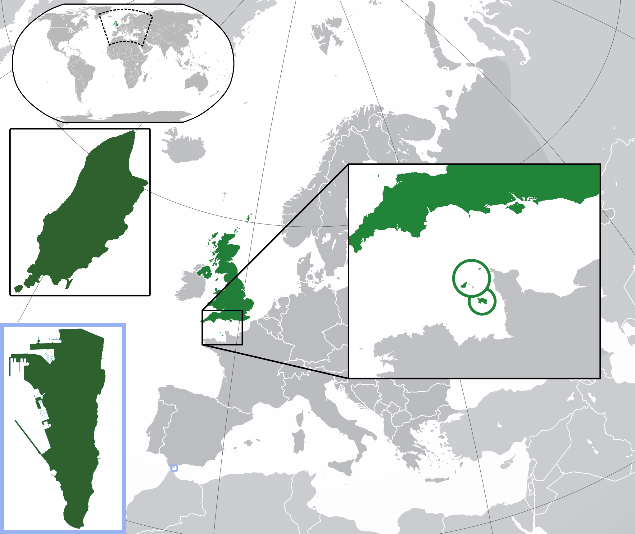 Own work based on Location European nation states.svg